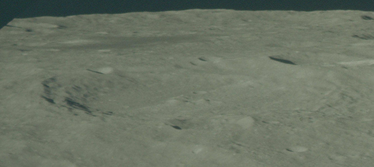 Oblique view of Wiener crater, on the far side of the moon, facing north. Part of Campbell crater is visible behind Wiener.